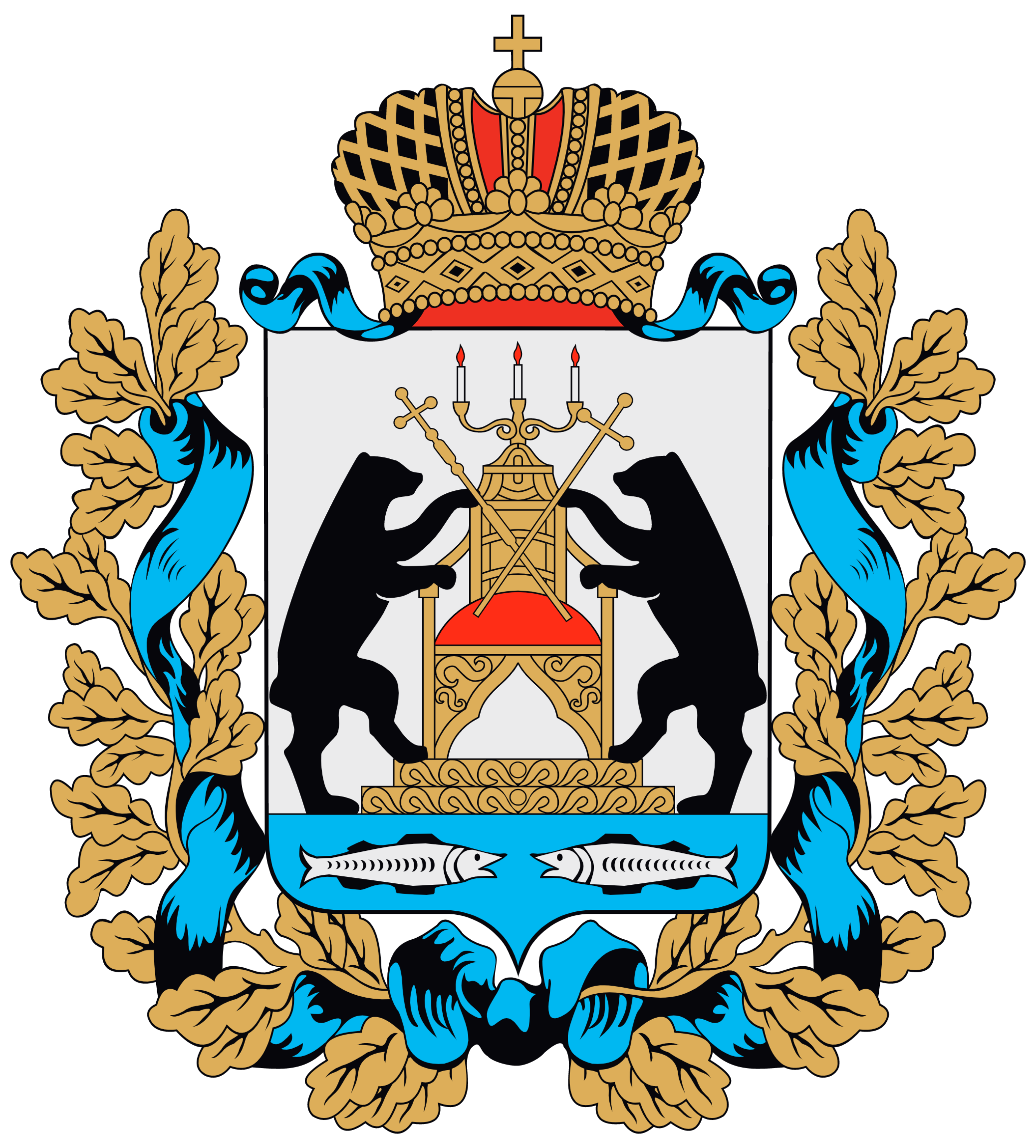 Coat of arms of Novgorod Oblast